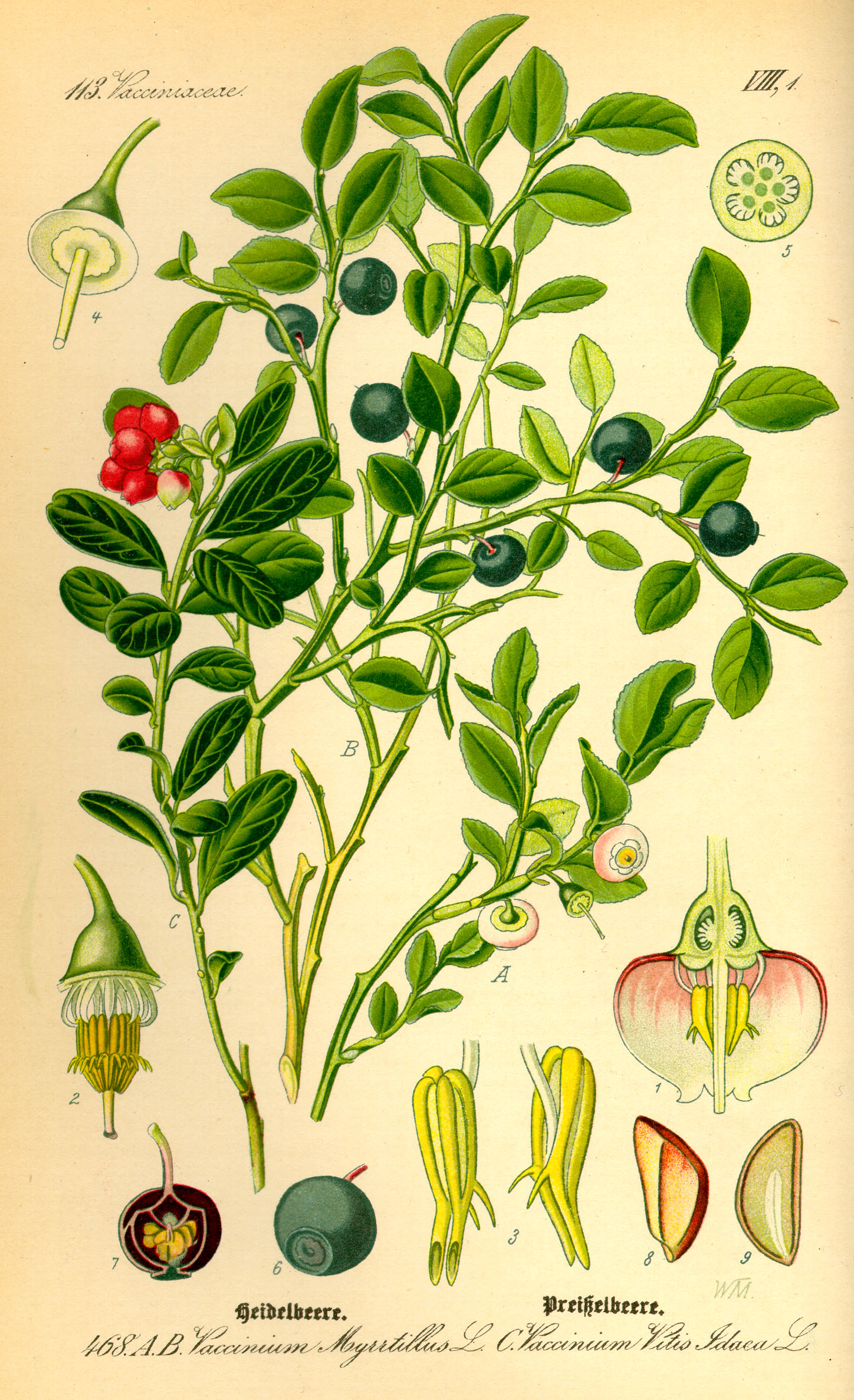 Name Vaccinium vitis-idaea and Vaccinium myrtillus (both species in the picture) Family Ericaceae Original book source: Prof. Dr. Otto Wilhelm Thomé Flora von Deutschland, Österreich und der Schweiz 1885, Gera, Germany